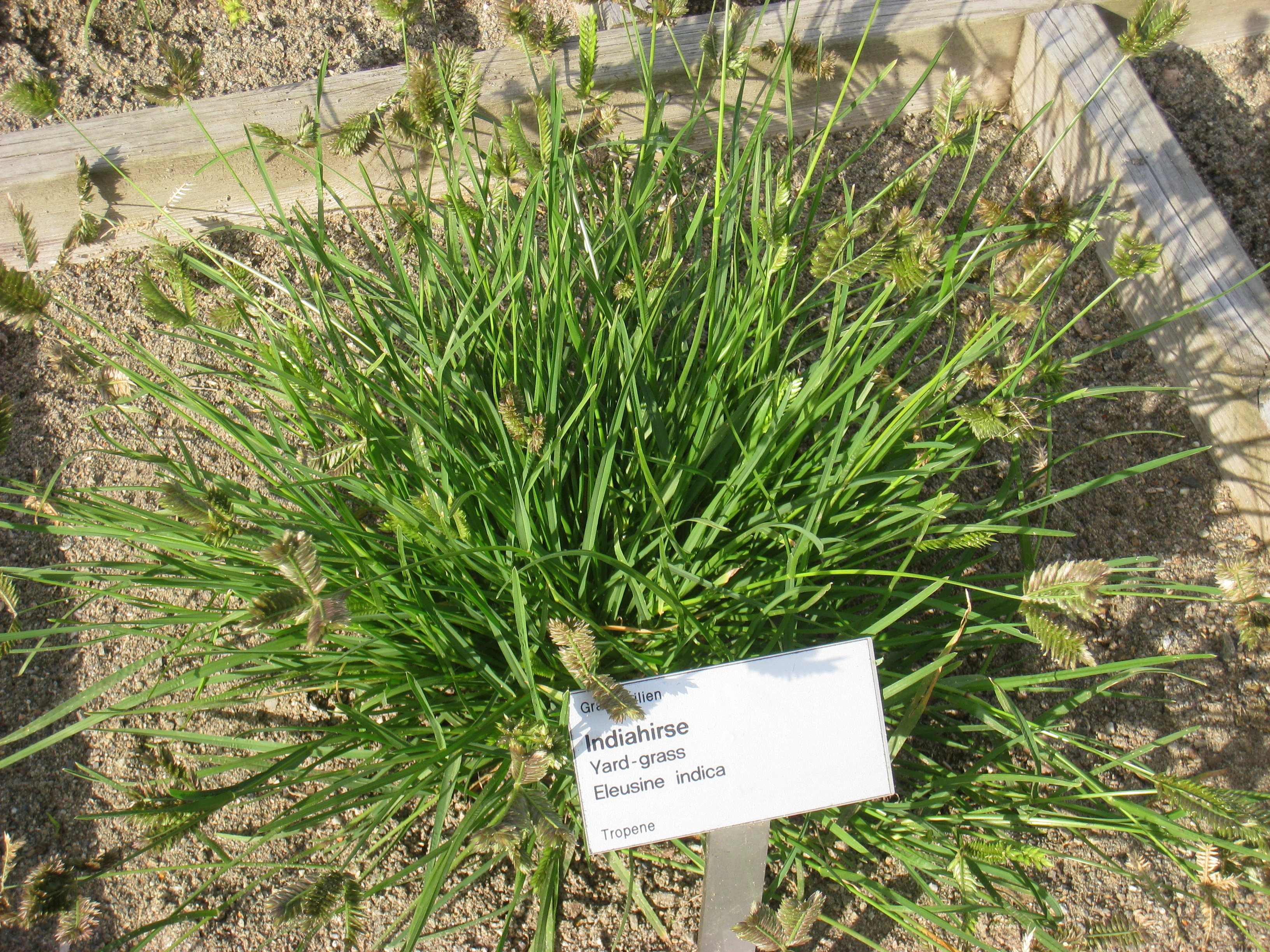 Eleusine indica - Oslo botanical garden, Oslo, Norway.